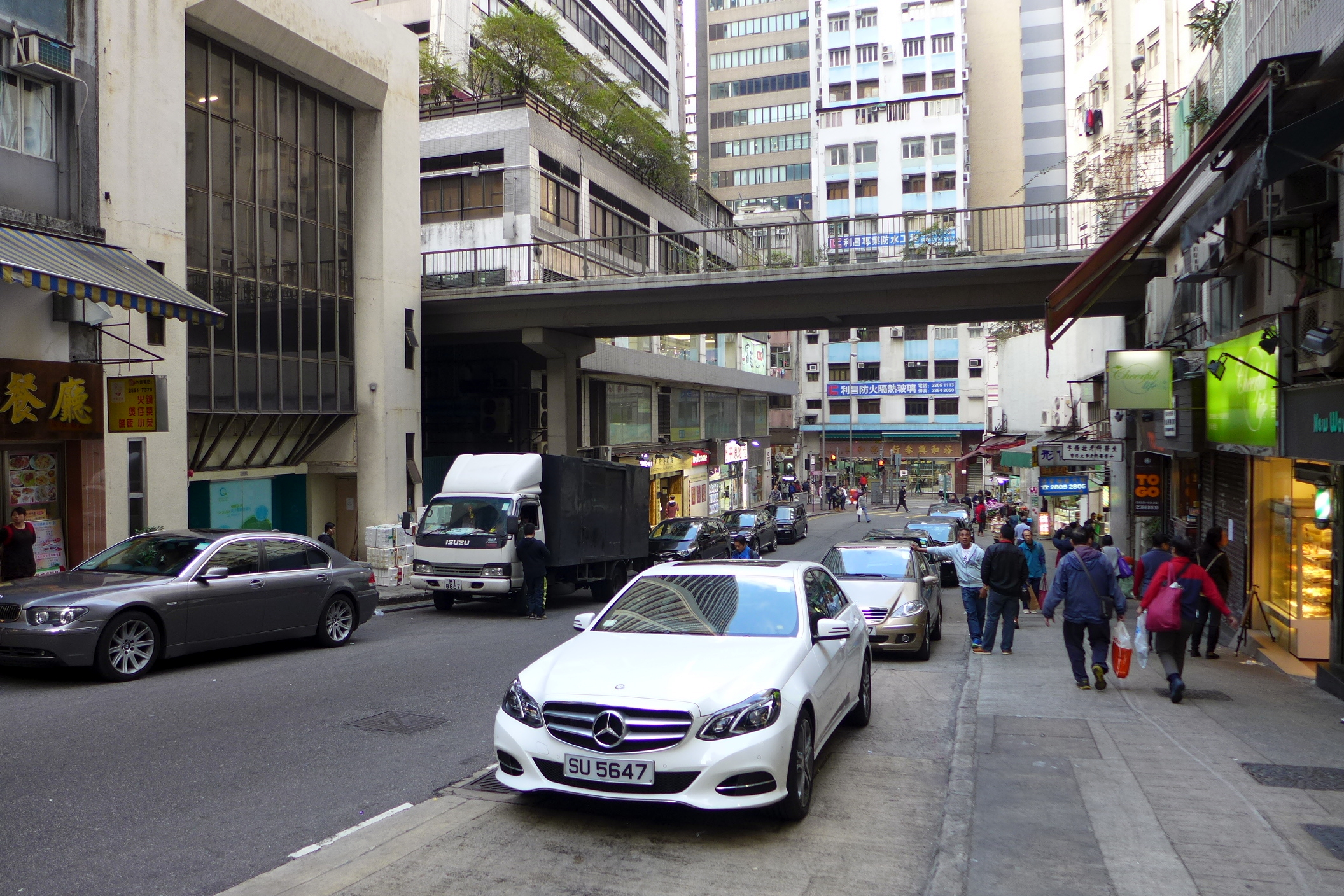 Possession Street 水坑口街